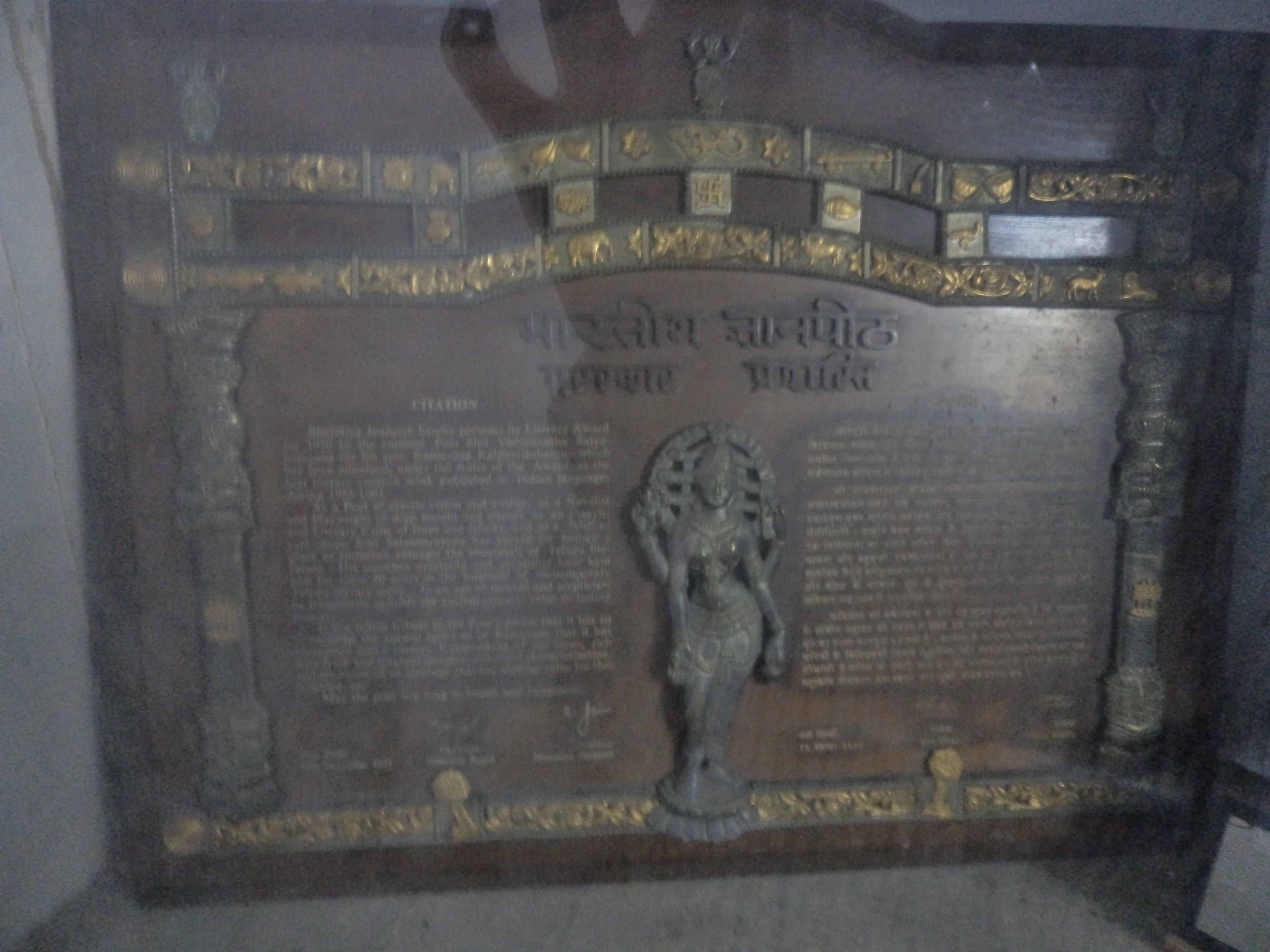 Viswanatha atyanarayana, a poet from Andhra Pradesh, Jnan pith award(the highest literature award in India) winner, his memories, his home and his posessions.